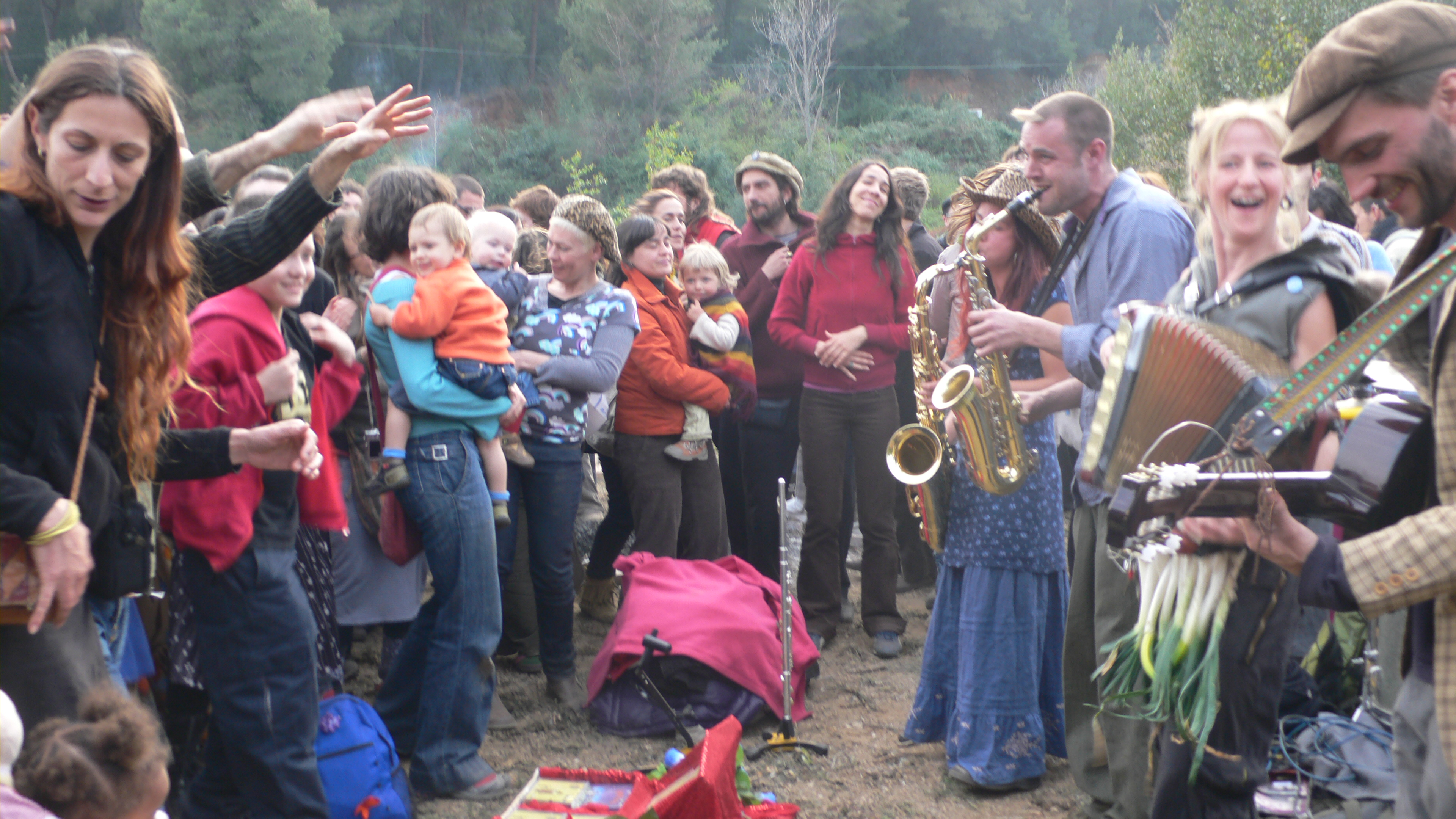 Members of Gadjo playing at the Can Masdeu Calçotada 2007. Note the calçots hanging from the lead singer and accordionist (Fraggle)